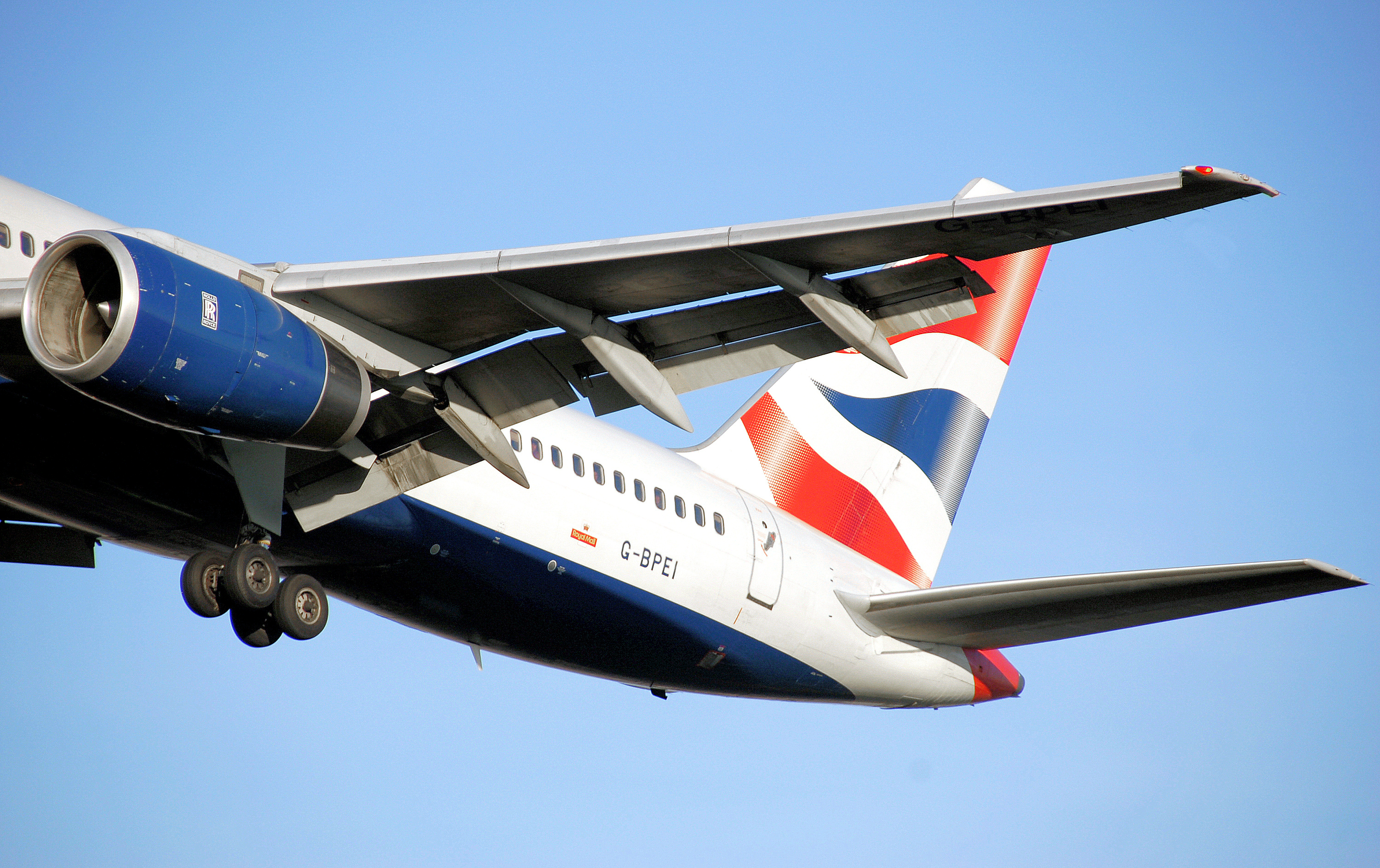 British Airways Boeing 757-200 (G-BPEI) lands at London Heathrow Airport, England.